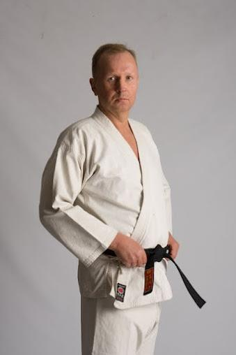 Viktor Turkin (*1965) is an Estonian lawyer, an expert in family and property law. He is also a karate instructor.